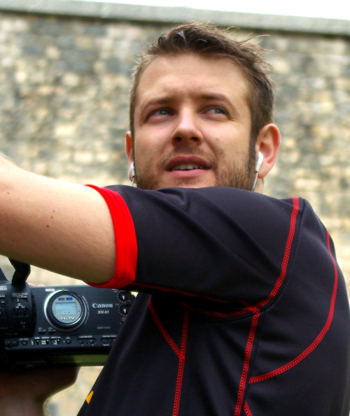 Fabien Fournier, during the making of a Noob episode